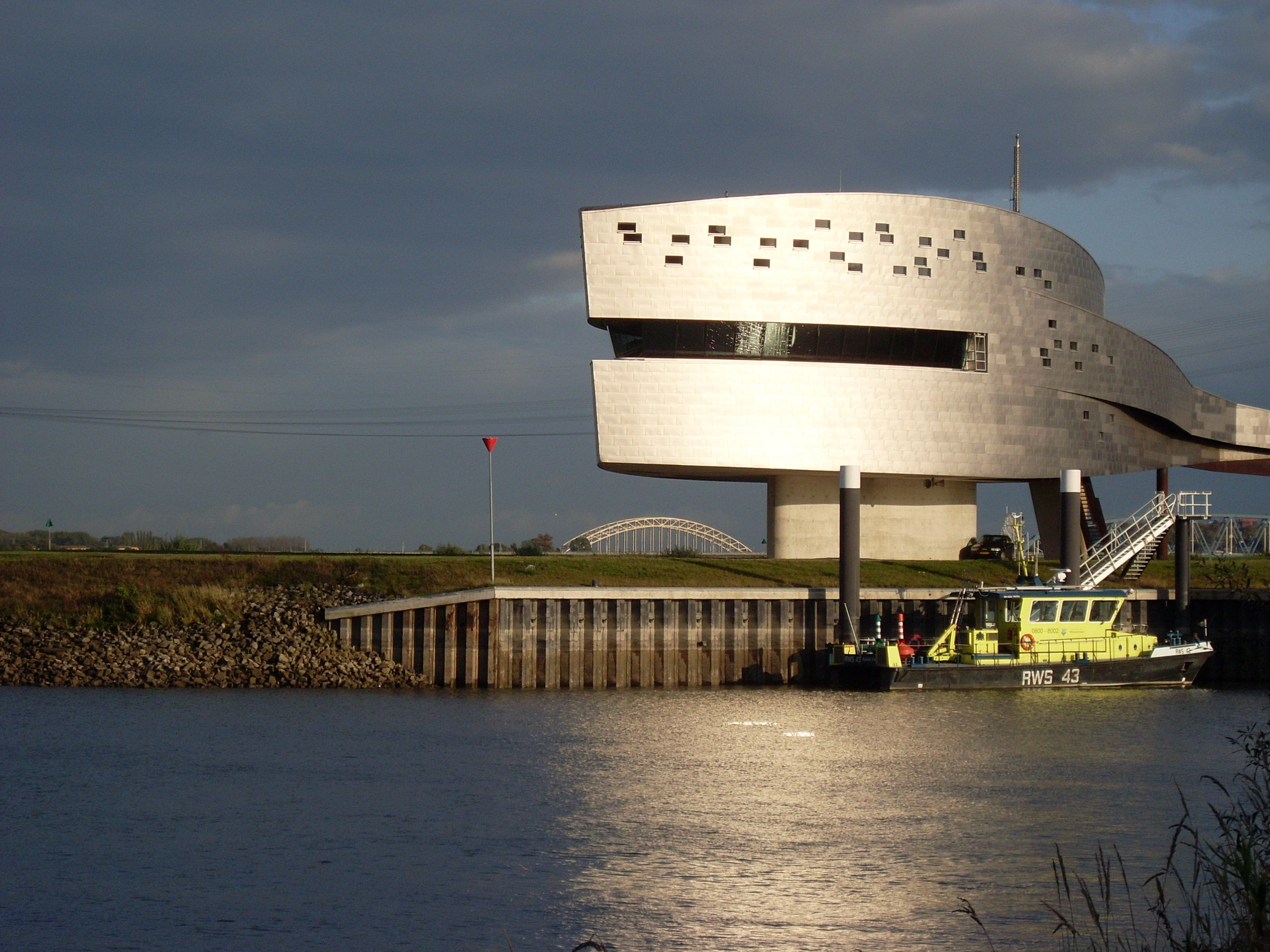 Traffic control room VTS Nijmegen